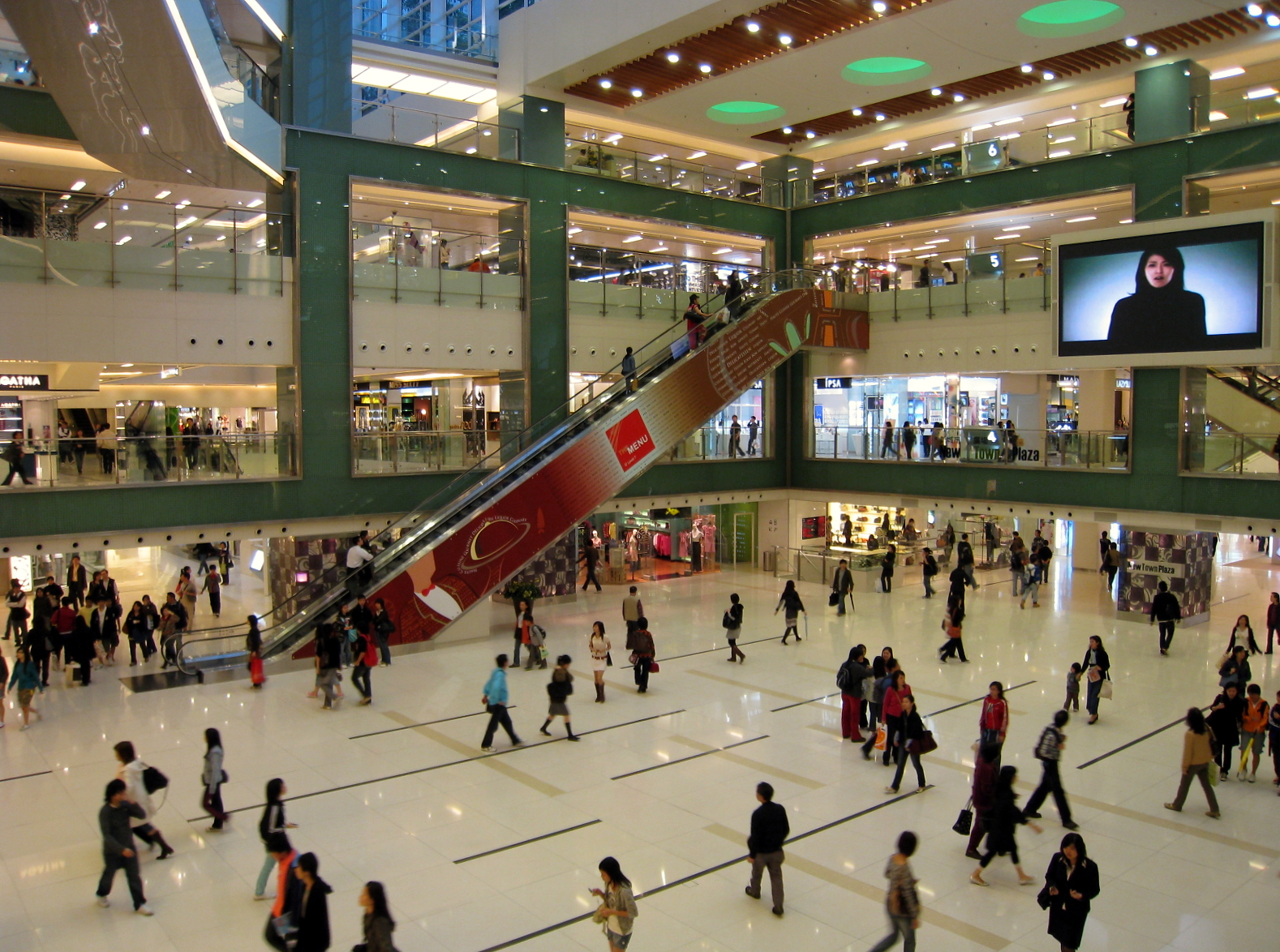 HK New Town Plaza Void in 2008